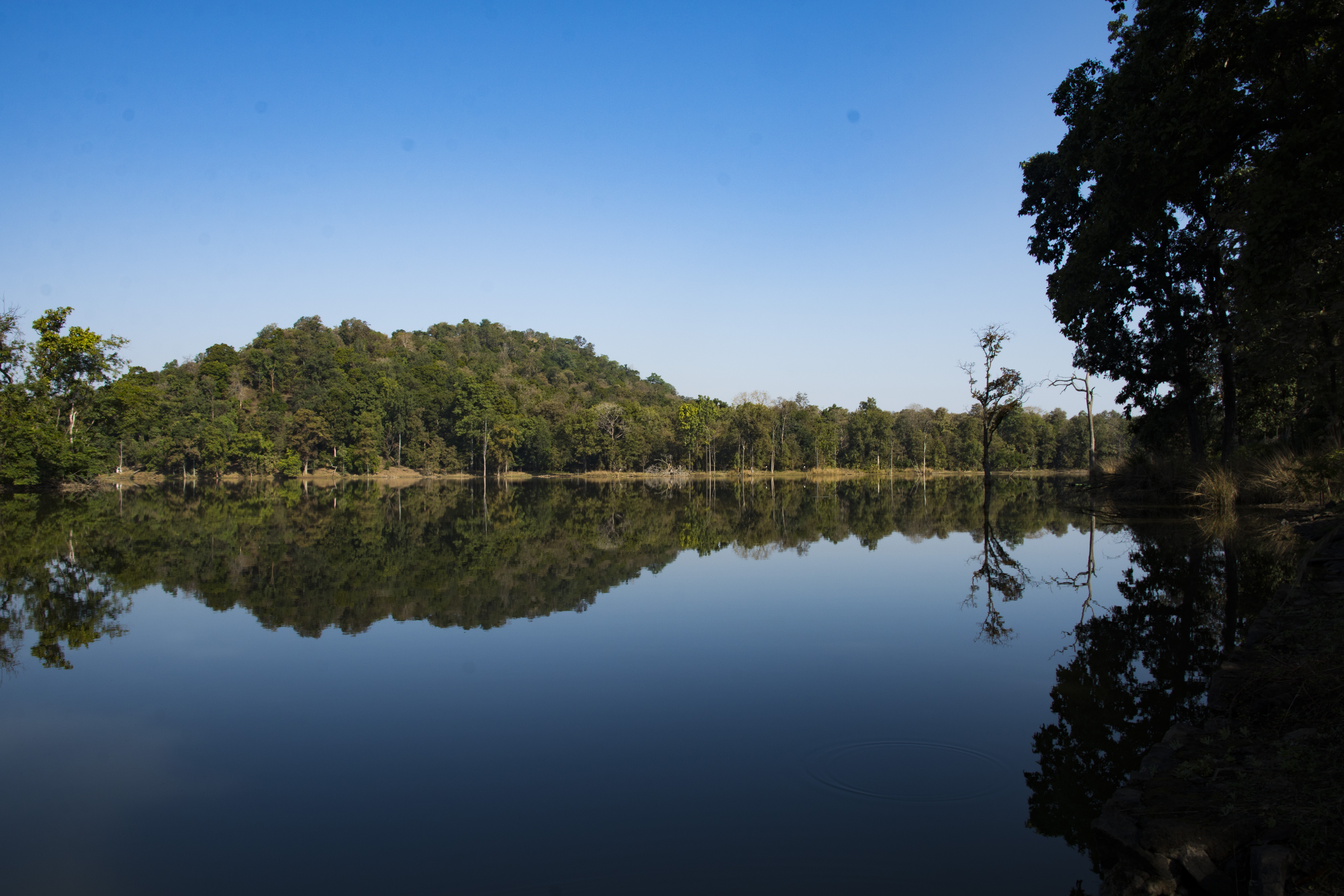 This photo is clicked in the Nawegaon-Nagzira tiger Reserve, Maharashtra, India.